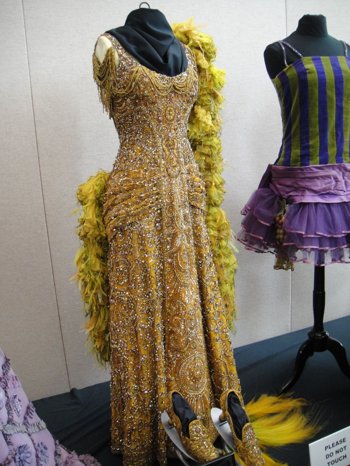 Barbra Streisand gown with shoes and headpiece from "Hello, Dolly!" at the Debbie Reynolds Auction Breaks Up Historic Hollywood Collection (The Paley Center for Media in Beverly Hills, Los Angeles, CA, USA).